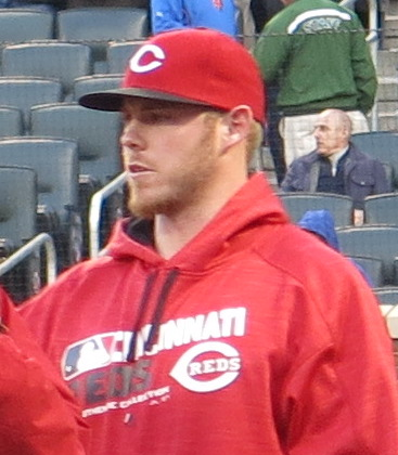 Blake Wood with the Cincinnati Reds, April 27, 2016.